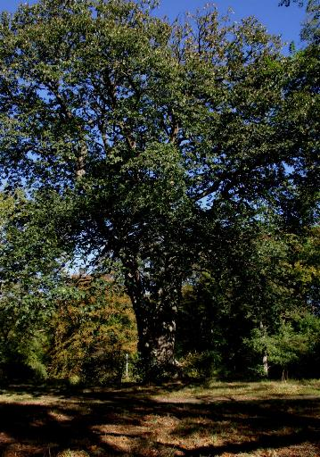 Sorbus torminalis: Habit